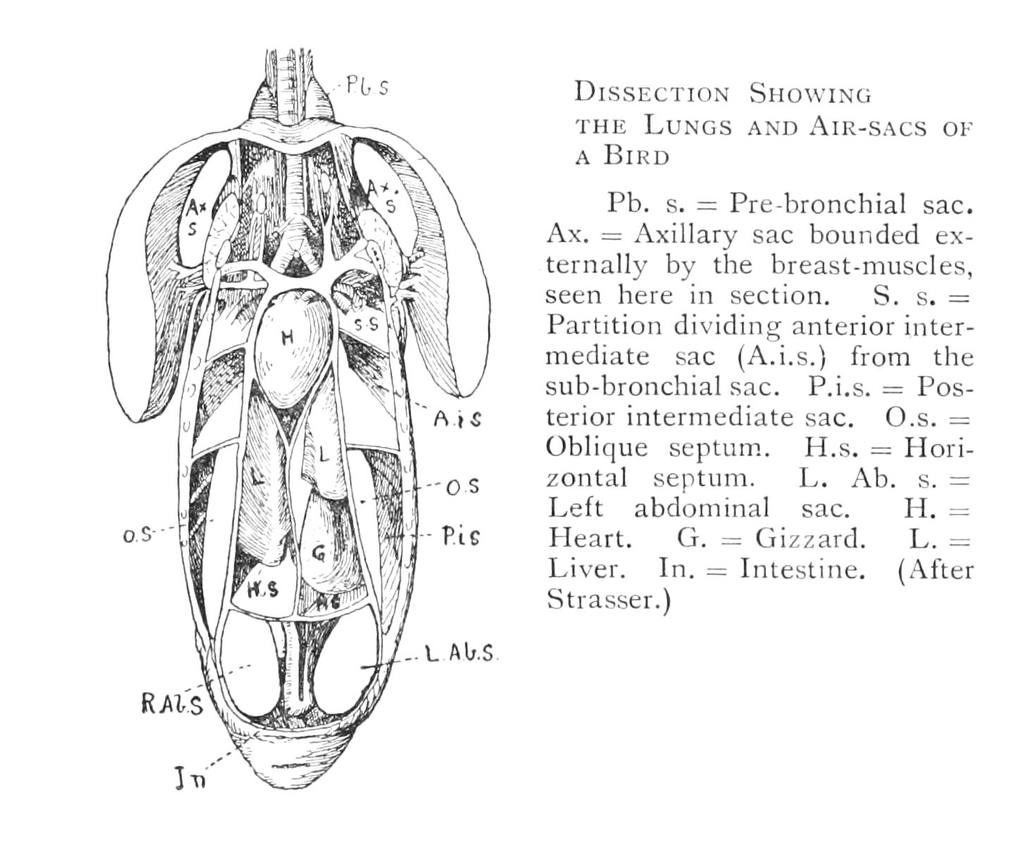 Air-sacs of birds